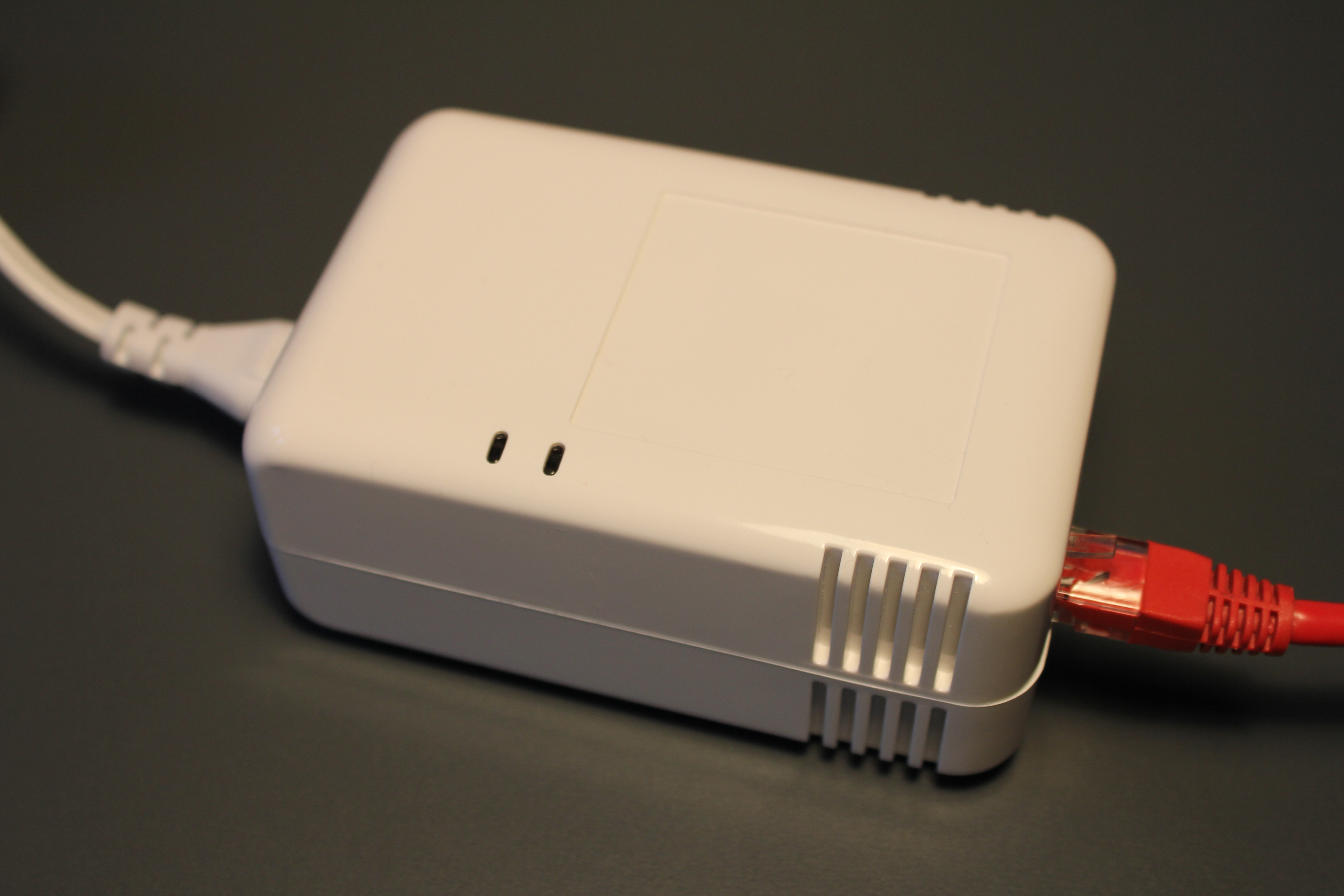 Marvell SheevaPlug running